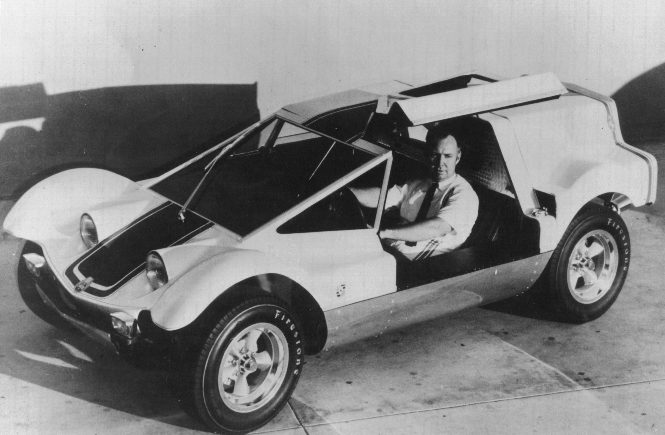 Dick Dean designed and built the Shalako automobile on a shortened Volkswagen beetle chassis in 1968-69. He crafted the car body of hand-formed aluminum skins and a steel tubing roll cage frame.